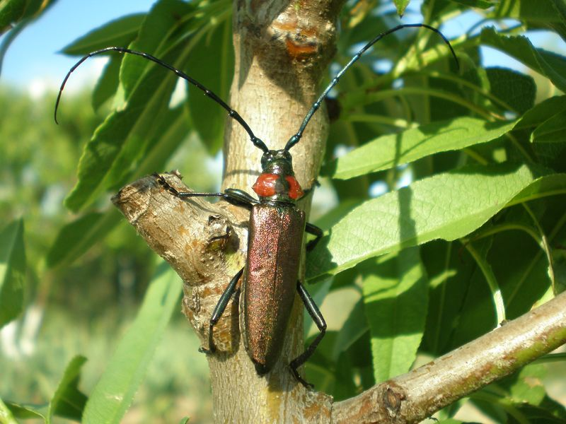 Near Tàrrega, Lleida, Catalonia - May 26, 2007